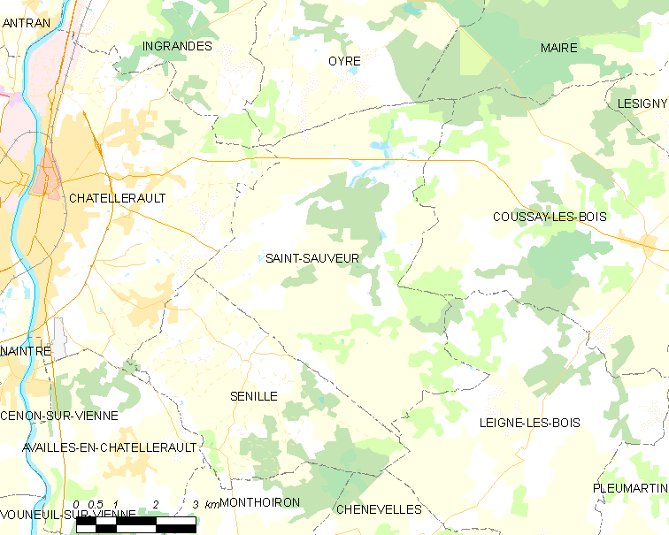 Map of French municipality Saint-Sauveur